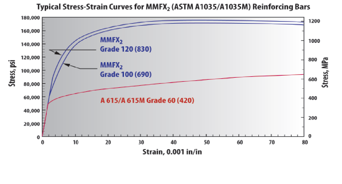 Typical stress-strain curves for MMFX2 steel